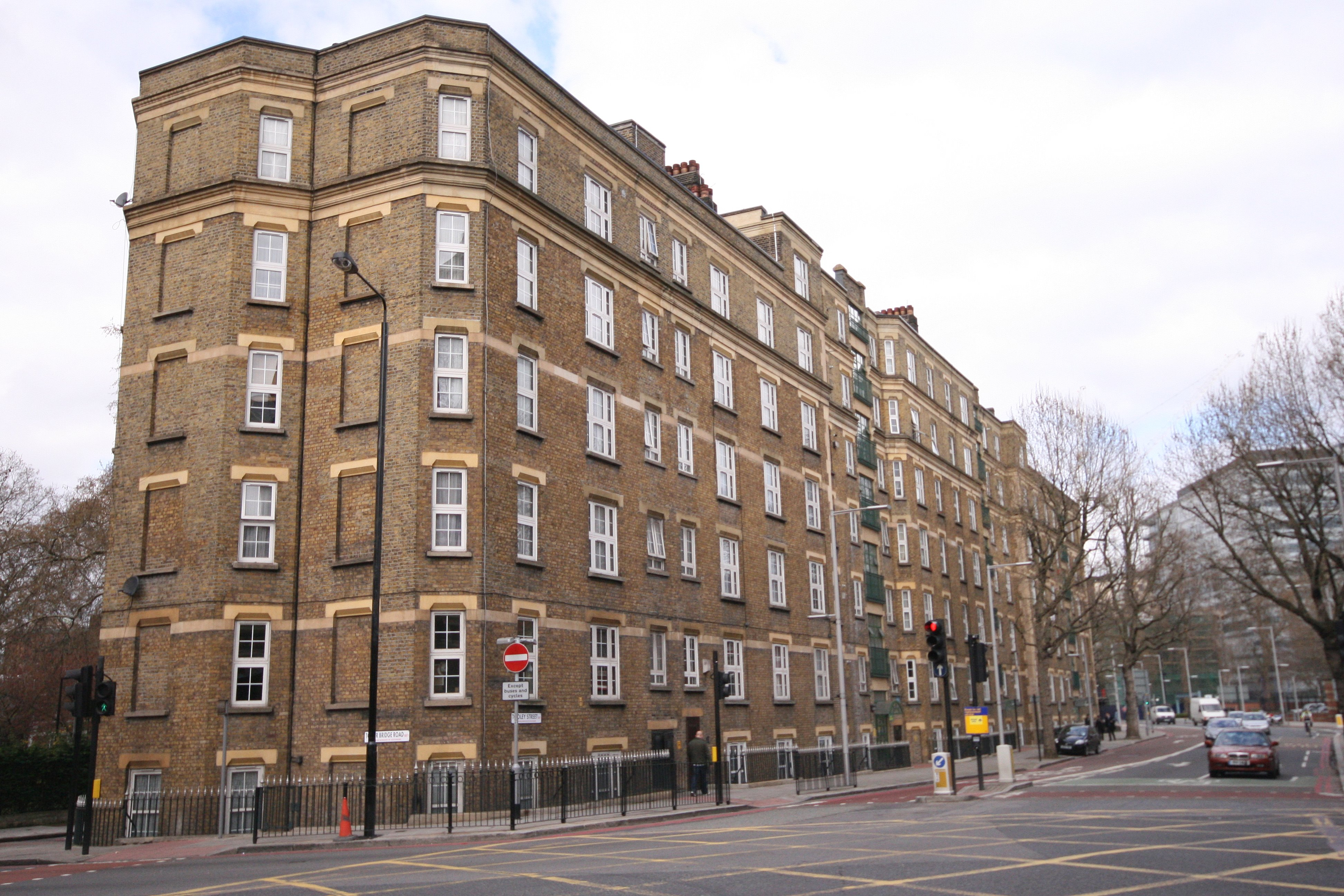 Devon Mansions, Building 2, Tooley St, London, UK